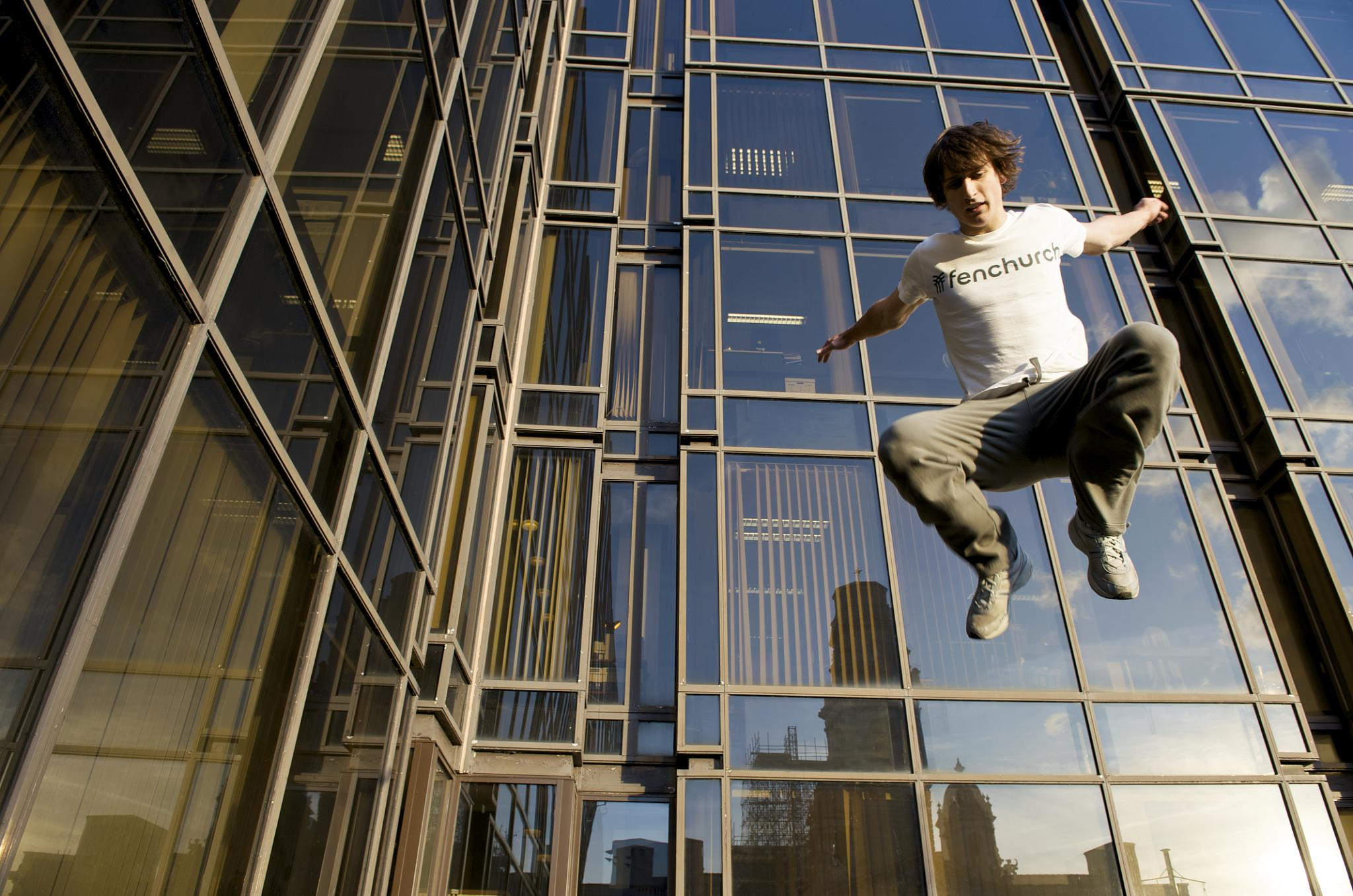 Parkour Foundations